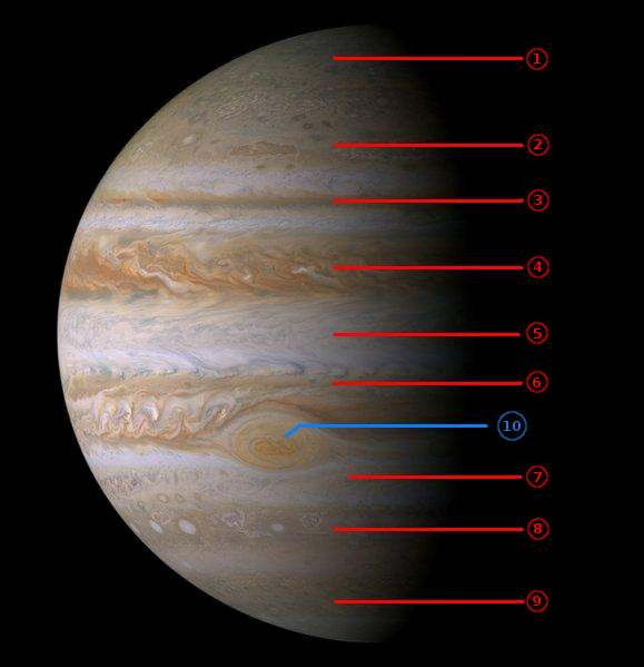 Jupiter Atmosphere belts system with keys and without text. In Spanish, bandas de nubes de la atmosfera de Jupiter